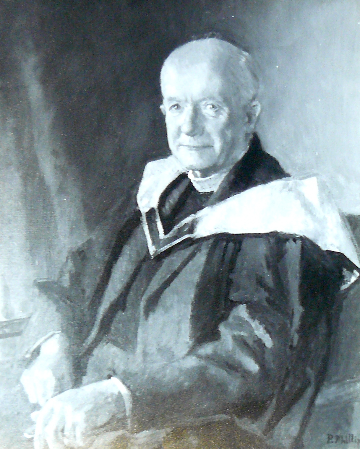 Portrait of Dr Thomas Halliwell by Patrick Phillips